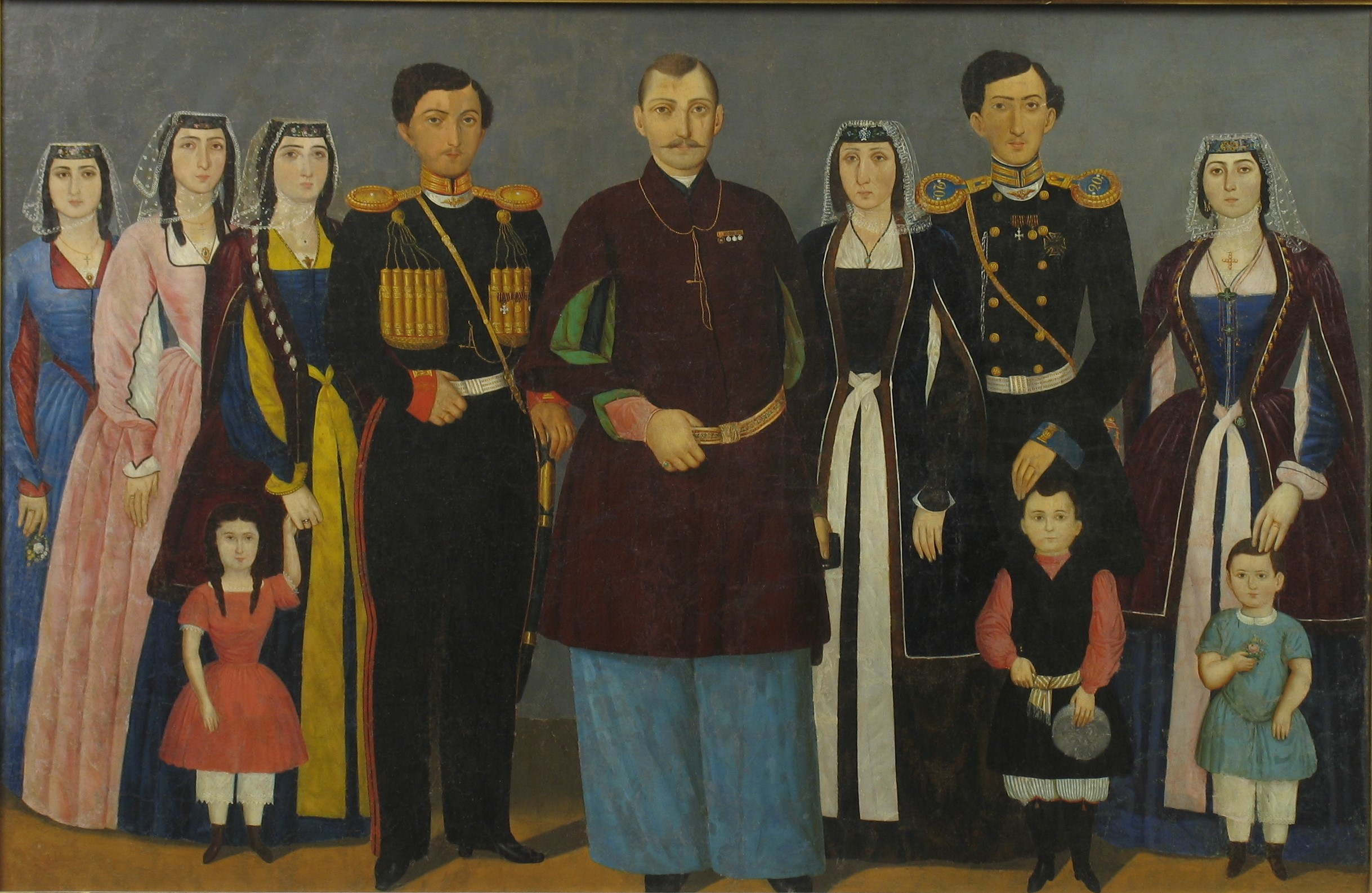 Prince Nicholas Mukhran-batoni (ნიკოლოზ ედიშერის ძე მუხრანბატონი), with his family. Oil on canvas. 89X129 cm